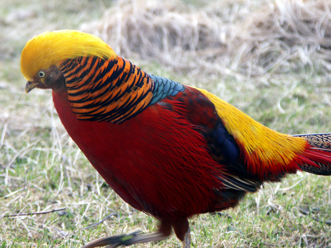 Golden Pheasant (Chrysolophus pictus) in captivity in Svalöv, Sweden.